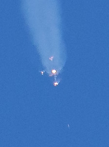 The Soyuz MS-10 spacecraft is launched with Expedition 57 Flight Engineer Nick Hague of NASA and Flight Engineer Alexey Ovchinin of Roscosmos, Thursday, Oct. 11, 2018 at the Baikonur Cosmodrome in Kazakhstan. During the Soyuz spacecraft's climb to orbit, an anomaly occurred, resulting in an abort downrange. The crew was quickly recovered and is in good condition.